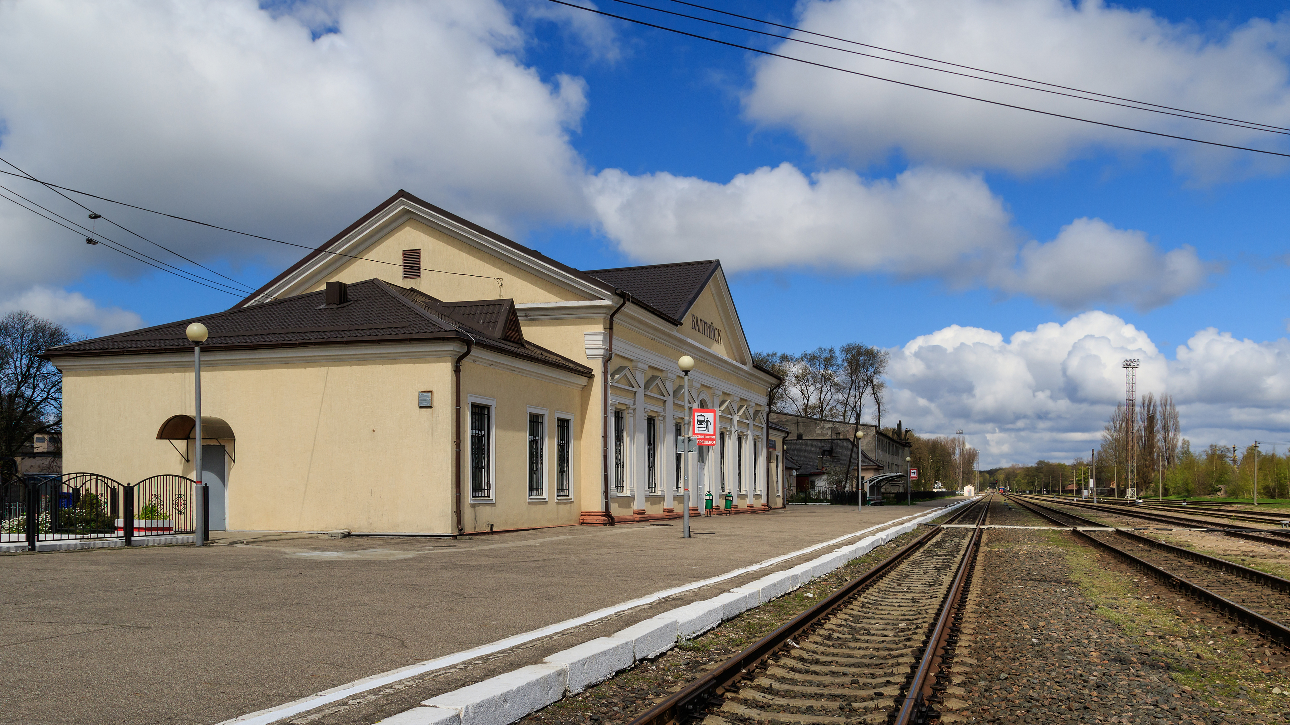 Baltiysk railway station in Baltiysk formerly Pillau / Kaliningrad Oblast (Russia).